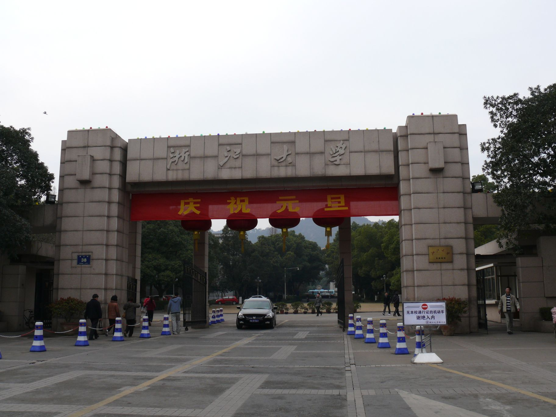 Yuquan campus of Zhejiang University (Hangzhou, China).